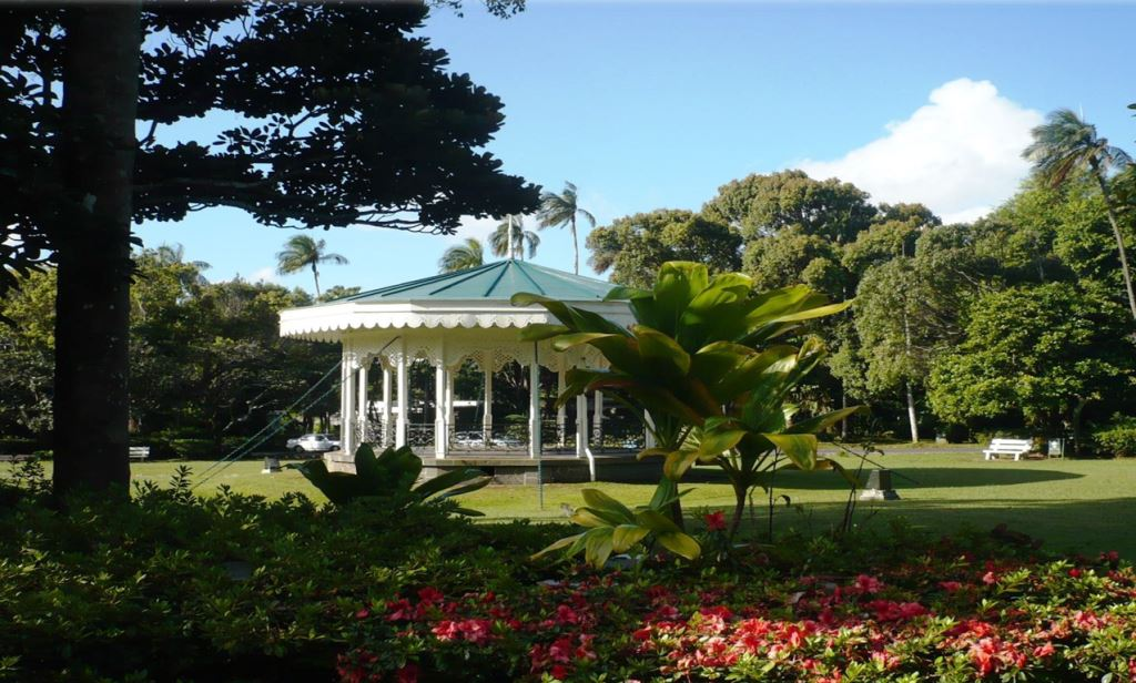 Curepipe Botanical Gardens - Kiosk for Bands